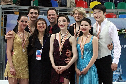 Tessa VIRTUE / Scott MOIR, Meryl DAVIS / Charlie WHITE and Maia SHIBUTANI / Alex SHIBUTANI with their coaches Marina Zoueva and Igor Shpilband at the 2011 World Figure Skating Championships